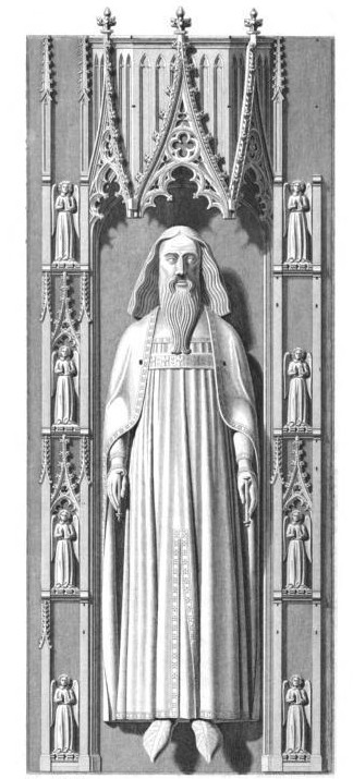 Tomb of Edward III